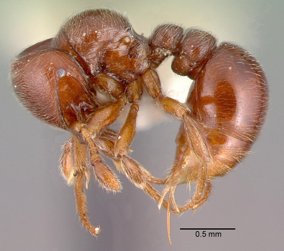 Profile view of ant Tatuidris tatusia specimen psw7891-9.